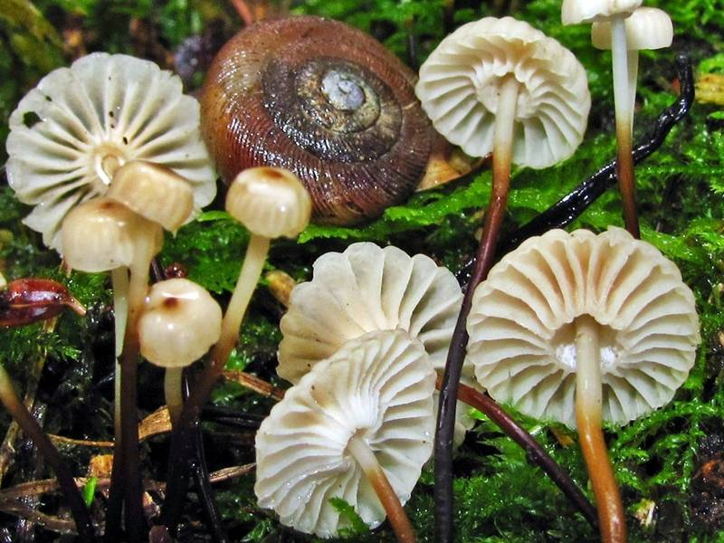 Fruit bodies of the agaric fungus Marasmius rotula (Scop.) Fr. Photographed in Oneida Co., New York, USA.